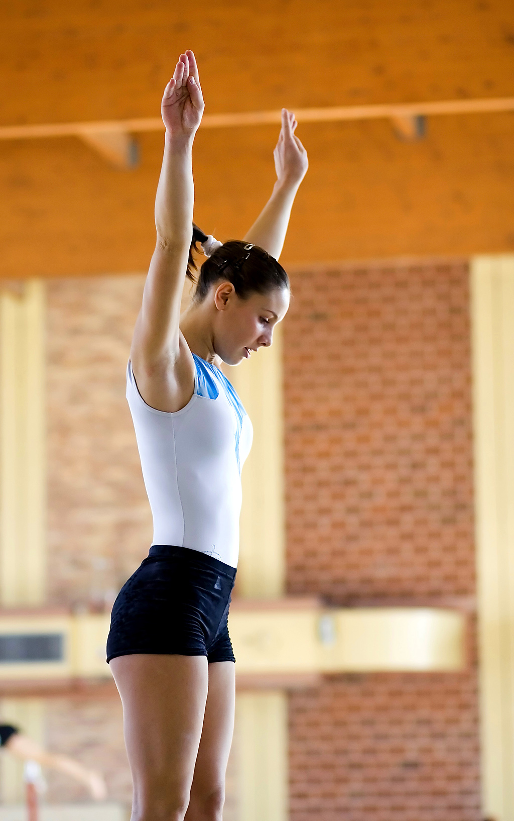 Gymnast training for a figure on floor.